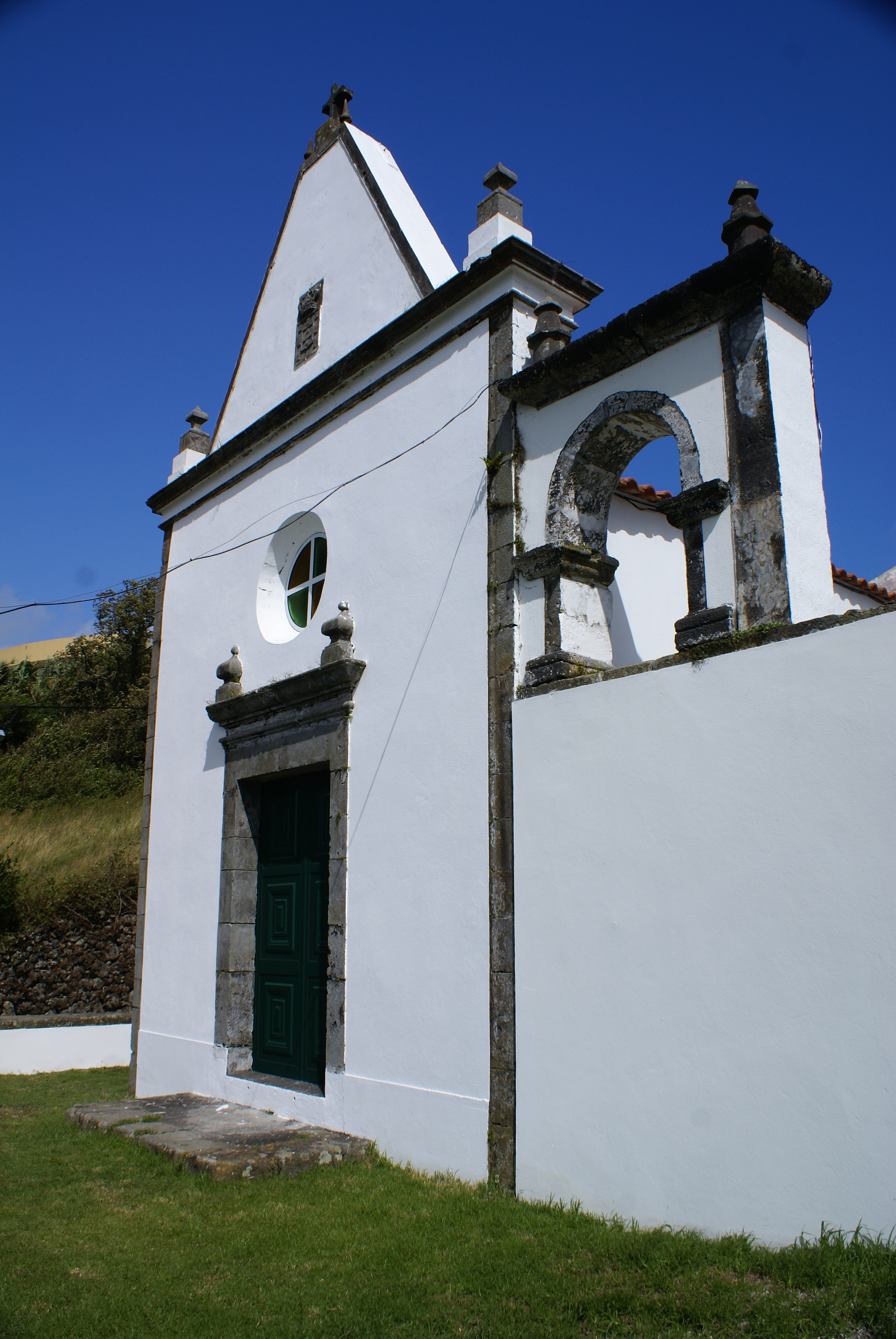 Front façade of the Chapel of Nossa Senhora do Pilar, Conceição, Horta, Faial (Azores), Portugal